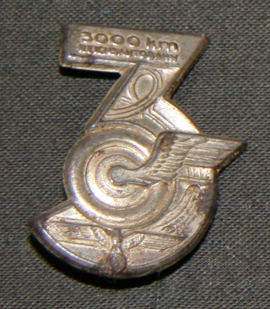 Badge 3000 km. Reichsautobahn form in shape of a 3; legend at top; at centre bull's eye with wing; eagle (wings spread) at bottom; pin fastening